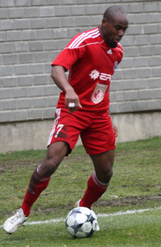 Stephen Ademolu playing for Ekranas Panevezys.